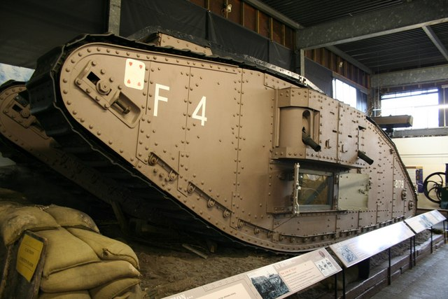 Water Carrier for Mesopotamia Lincolnshire is renowned for its agricultural history, but the birth of the 'tank' is less well known. Sir William Tritton, Managing Director of engineering firm William Foster & Co. and Major W.G.Wilson, of the Landships Committee produced the first tracked armoured vehicle 'Little Willie' in 1915. Further developments followed to the shape seen here and widely recognisable as a tank - a name derived from 'water tank' itself derived from 'Water carrier for Mesopotamia', an invented purpose intended to mislead German spies. "Flirt" is a mark IV tank built in Lincoln in 1917 and saw action at the Battle of Cambrai in November 1917. It is on permanent loan to the City of Lincoln from Bovington Tank Museum, it was extensively restored in the mid 1980s and is a popular attraction at the Museum of Lincolnshire Life.